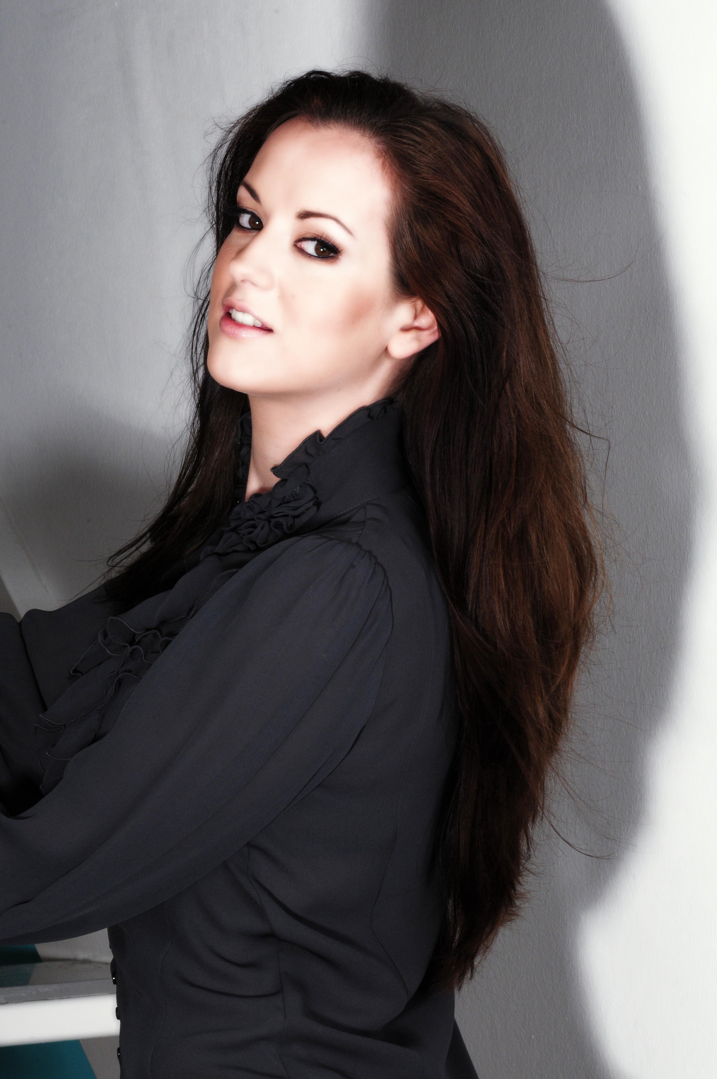 German actress Isabella Jantz